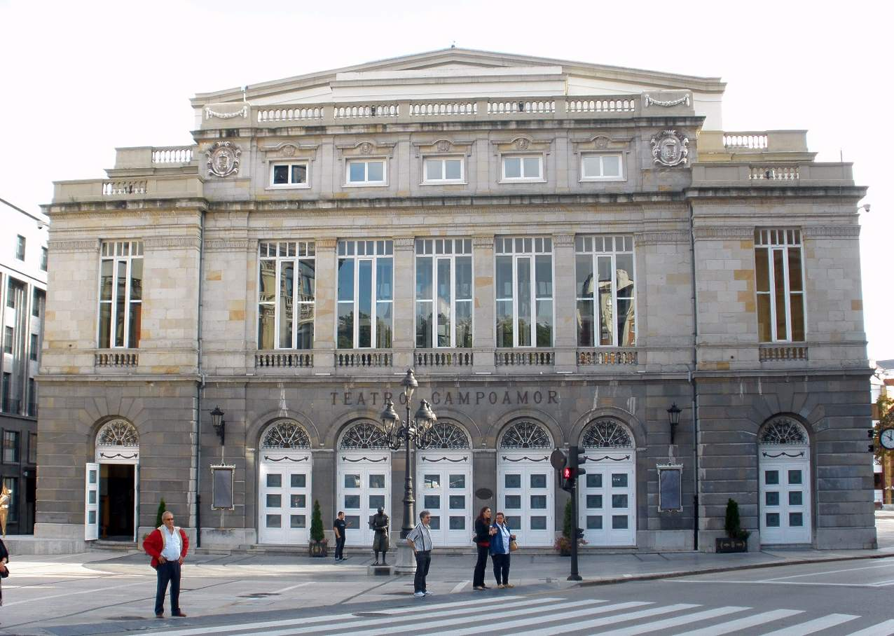 Teatro Campoamor (Oviedo)